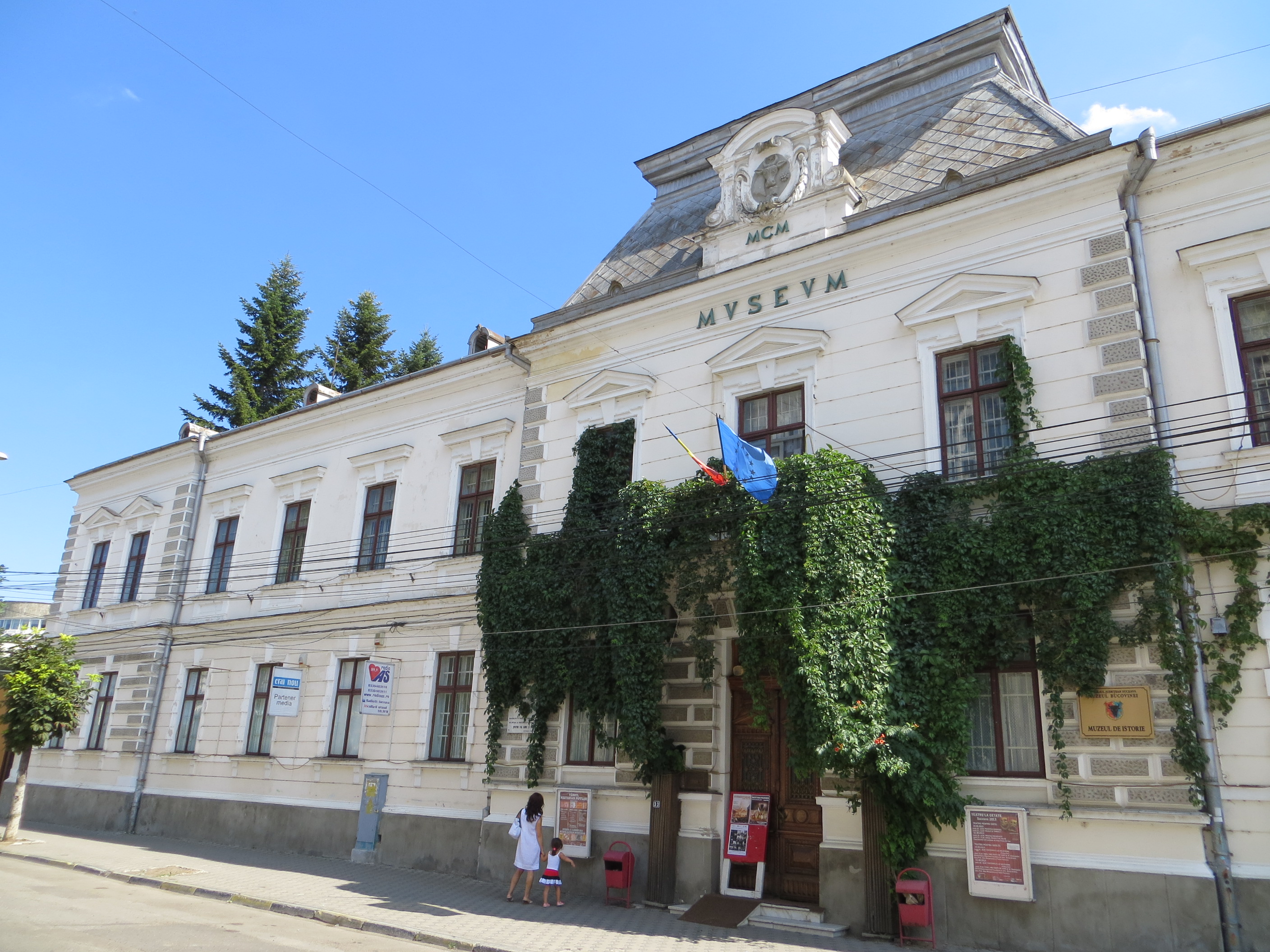 Bukovina Museum in Suceava / Suceava History Museum.